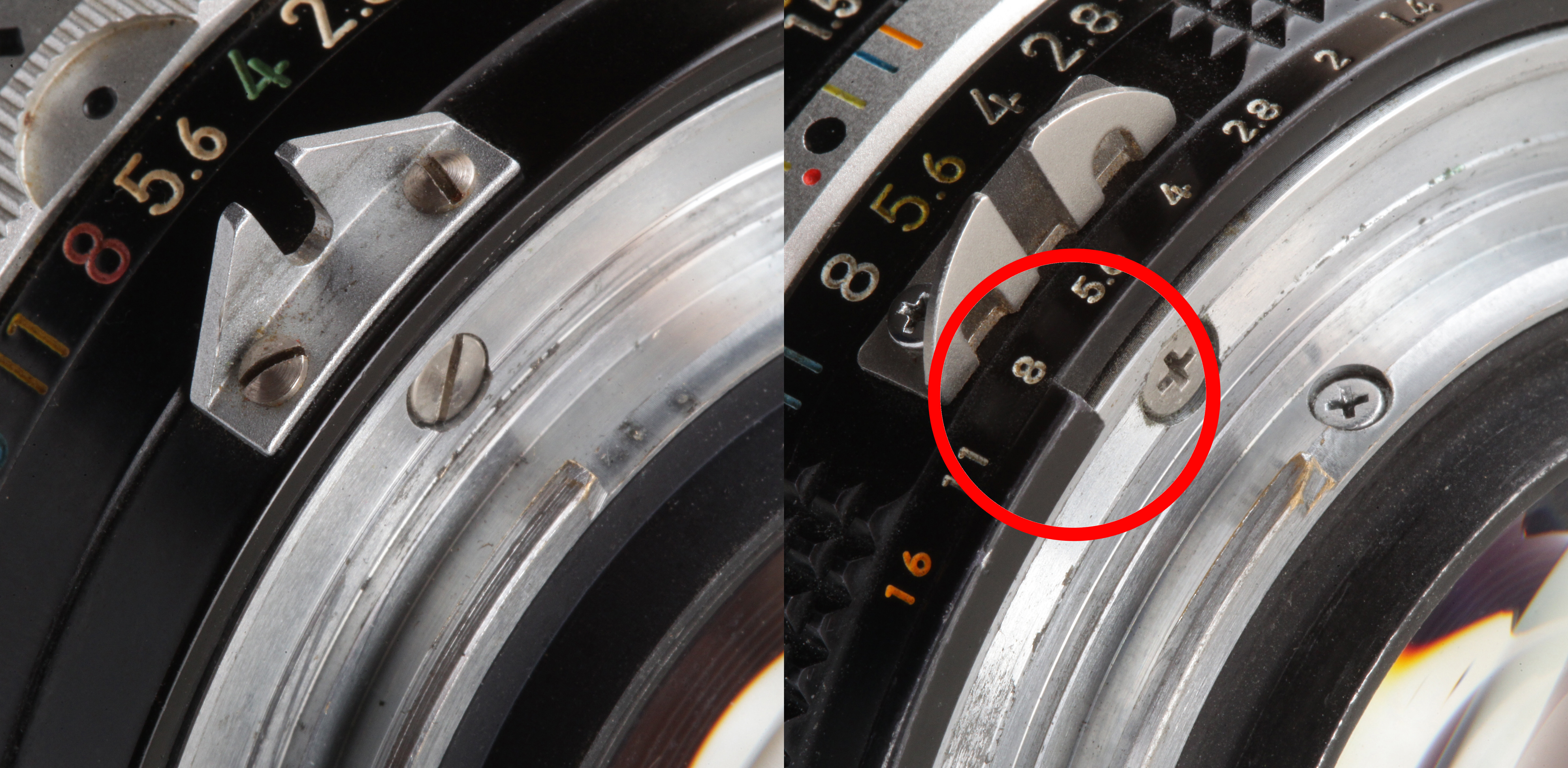 Comparasion of non-AI (left) and AI (right) 50/1,4 Nikkor lens flanges. Aperture transmission ledge in the red circle. Additional line of f-stop digits for Aperture Direct Readout system.